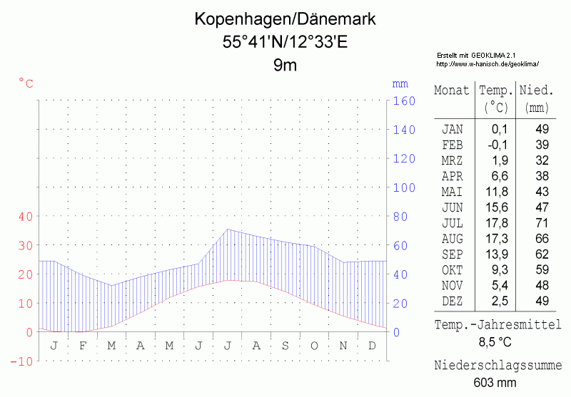 climate chart in the format by Walther and Lieth, metric, °Celsisus and millimeters, made with Geoklima 2.1